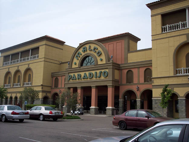 The Paradiso